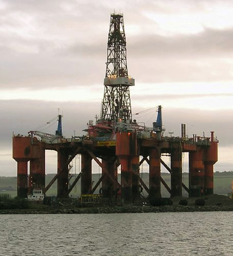 Transocean Wildcat (Aker H-3 design) drilling rig in Cromarty Firth, Scotland.